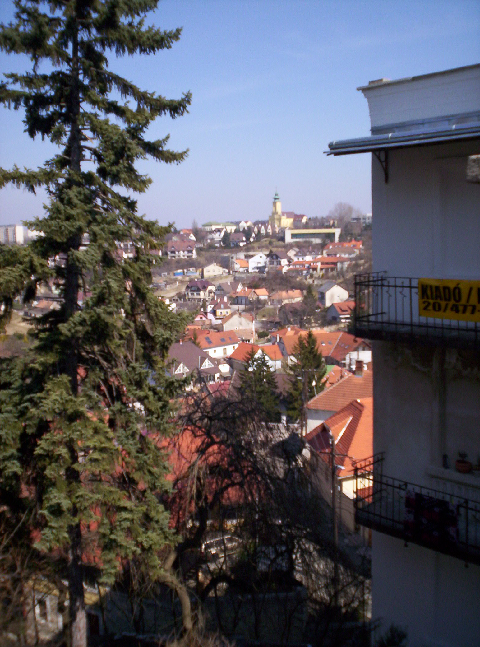 Description: View from the gate of the castle, Veszprém